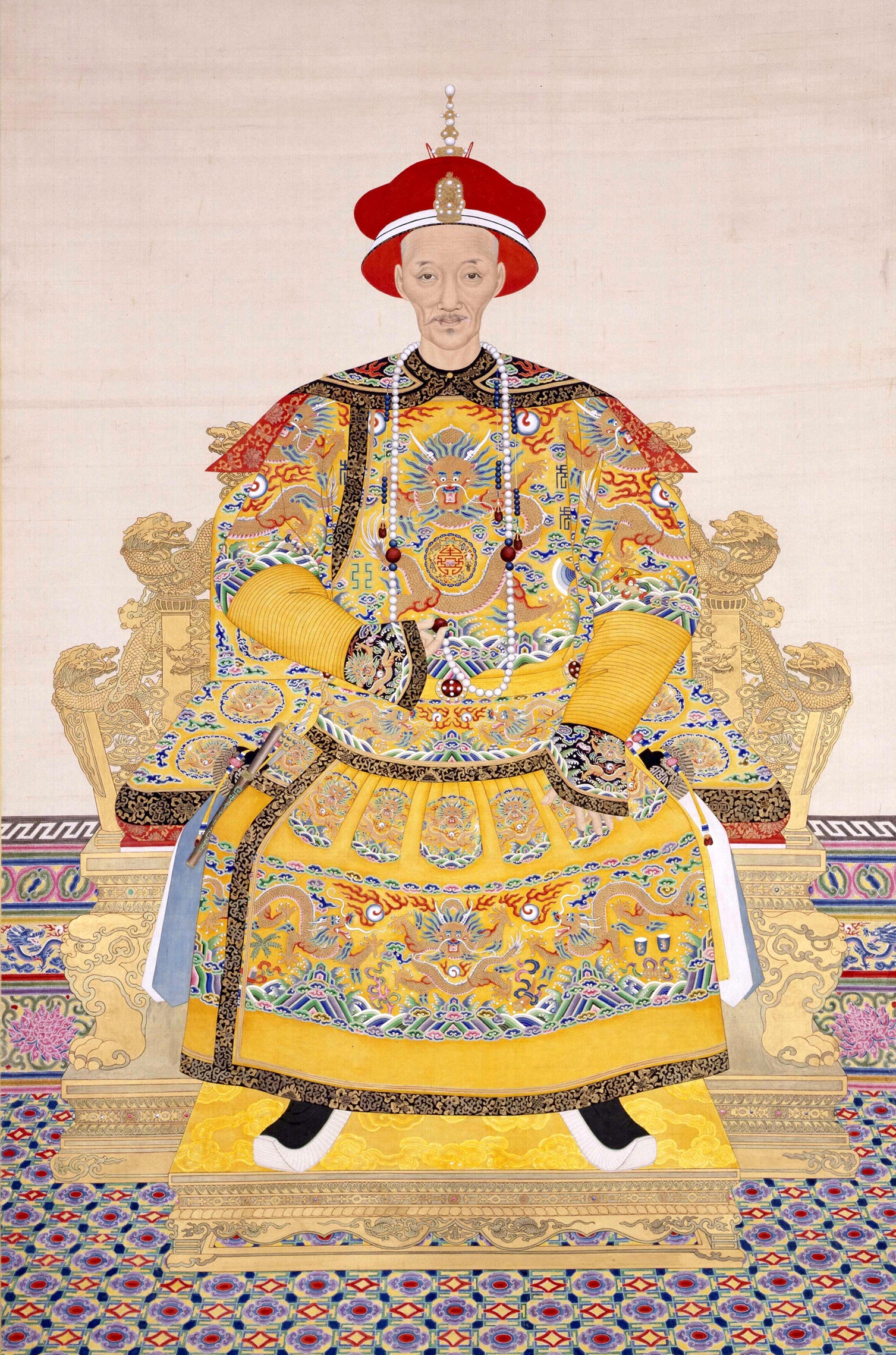 The Imperial Portrait of a Chinese Emperor called "Daoguang".